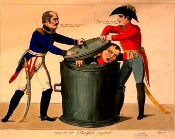 Blucher Wellington and Napoleon's defeat (1815)